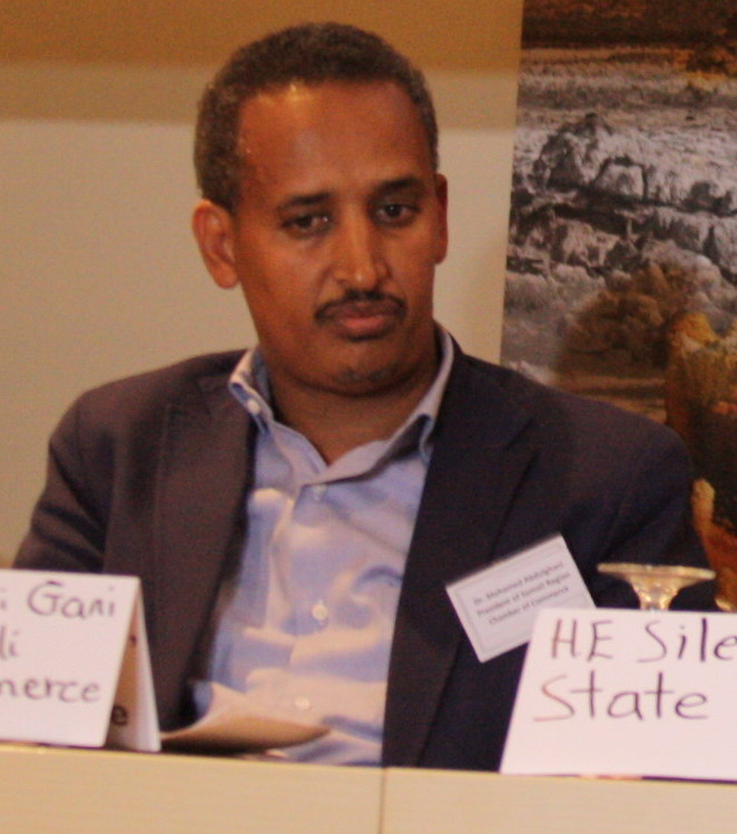 Dr. Mohamed Elmi Gani, President of the Somali Region Chamber of Commerce.